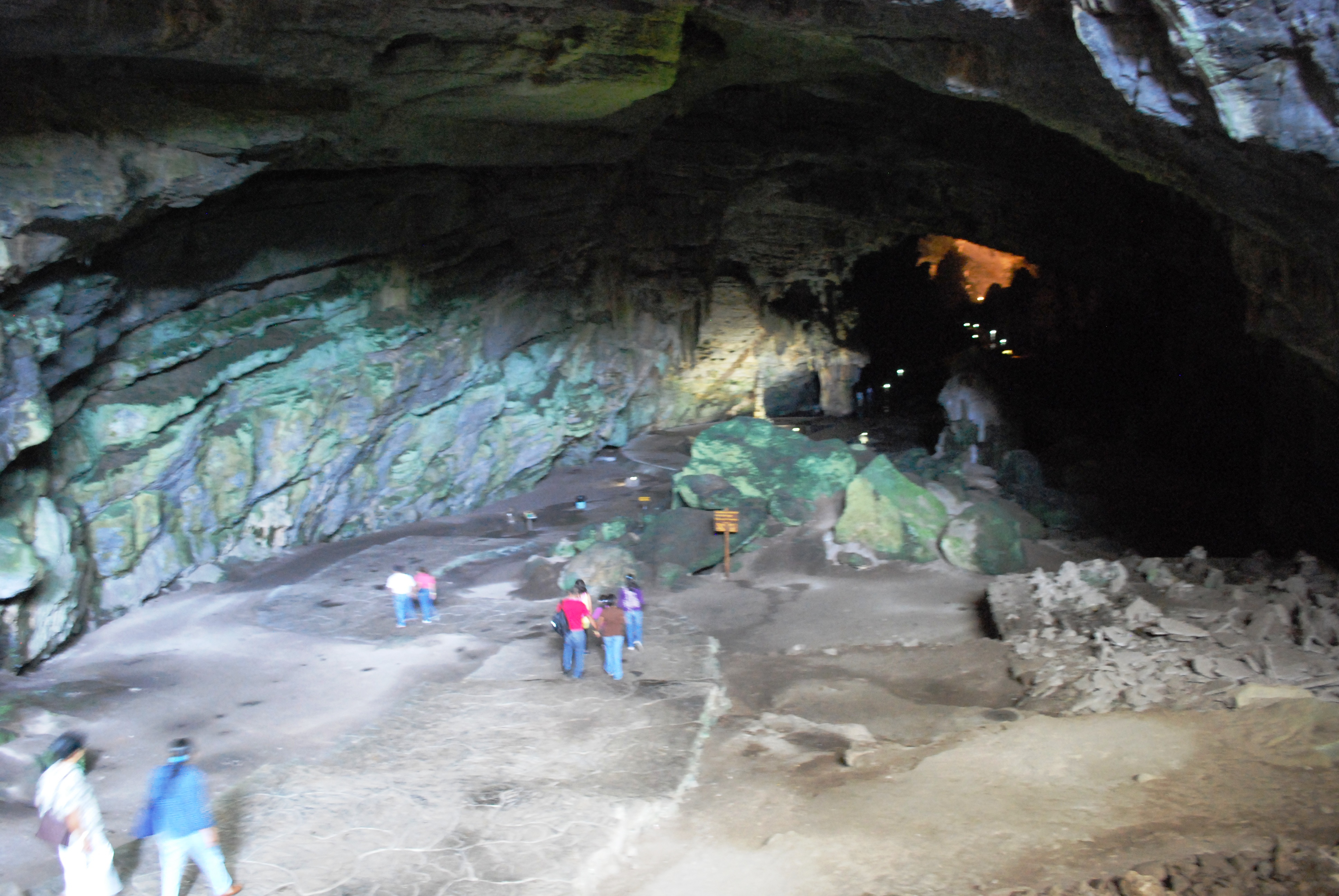 Visitors further down the path entering the Cacahuamilpa Caverns in Guerrero State, Mexico